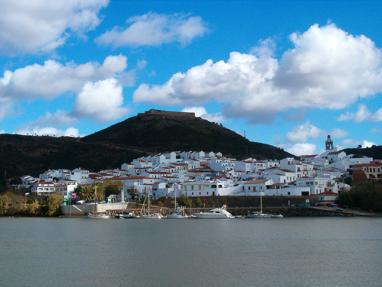 Alcoutim, view to Sanlucar de Guadiana